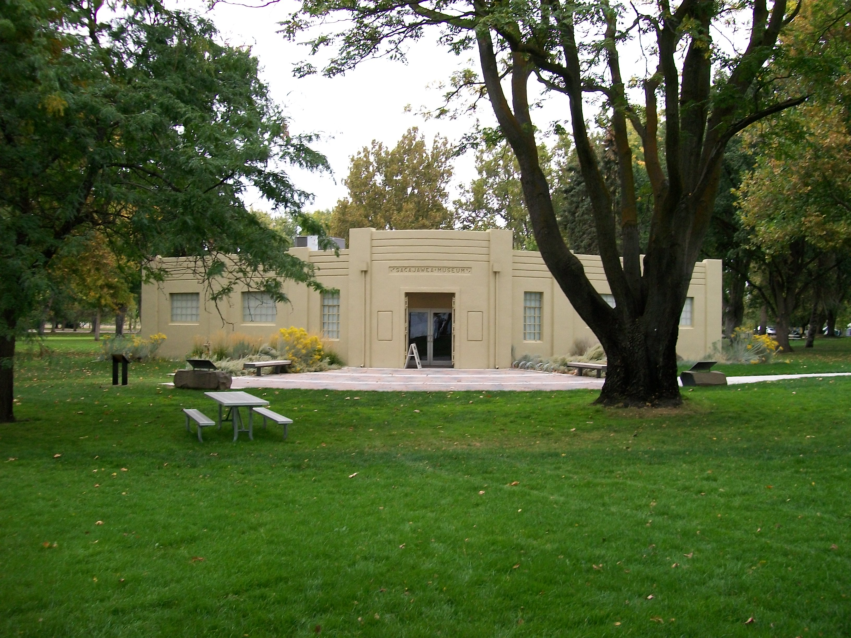 The Sacajawea Museum in Sacajawea State Park.